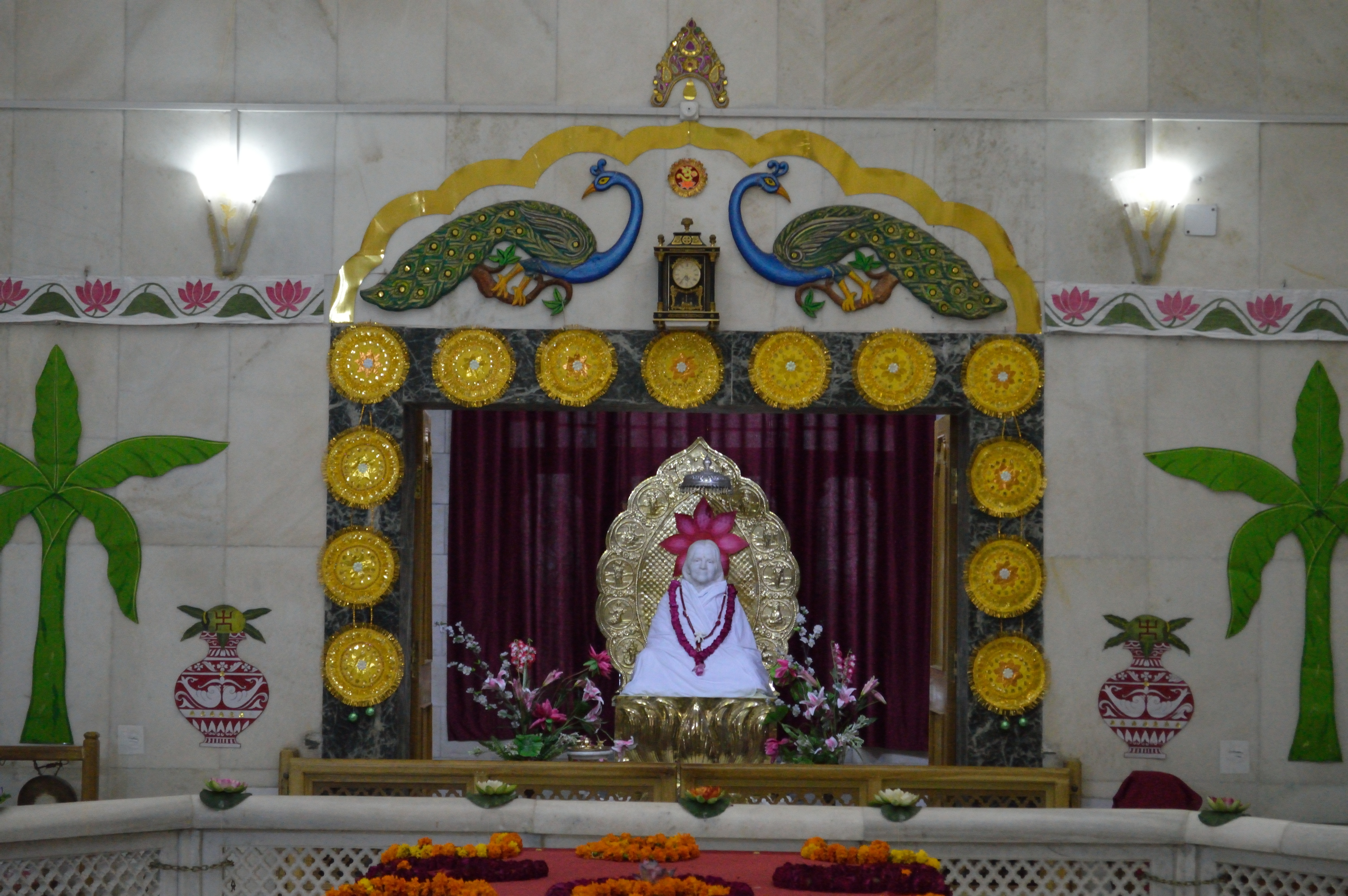 Anandamayi Ma Ashram - Haridwar ( Kankhal )